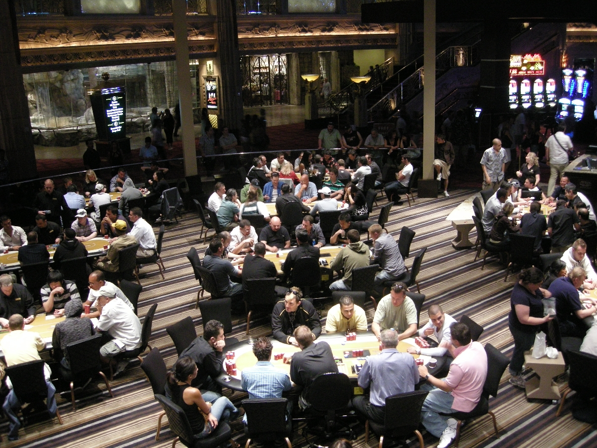 Poker Room at the MGMG Grand. Lion Reservoir in the background